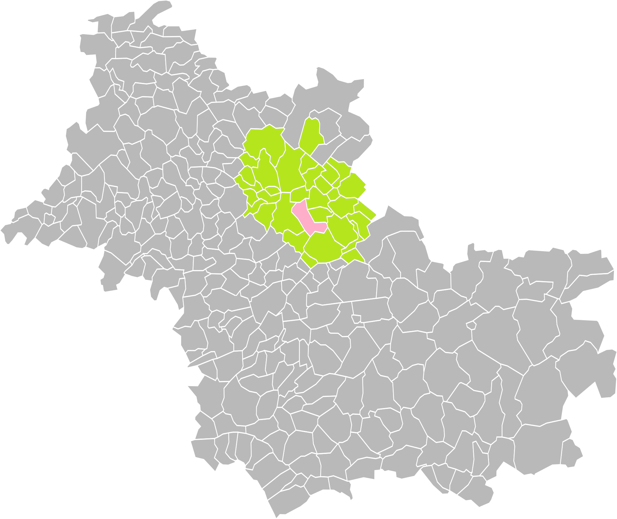 Location of the commune of La Chapelle-Saint-Martin-en-Plaine in the Communauté de communes de la Beauce-Val de Loire (Loir-et-Cher)